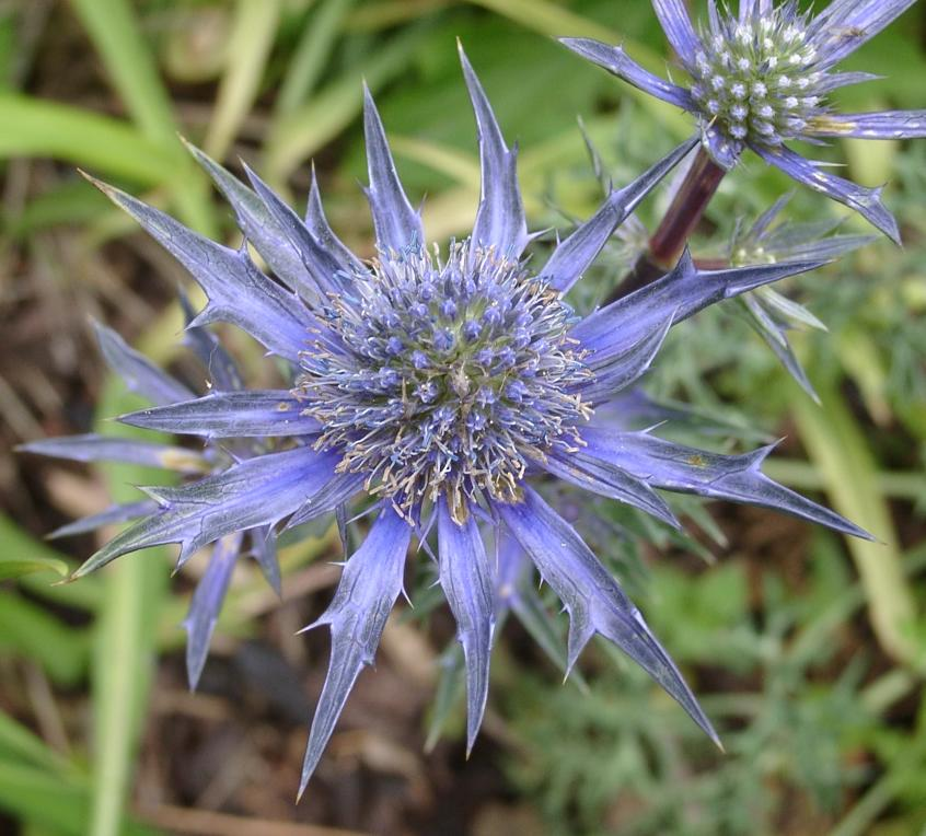 Photo of Eryngium bourgatii by User:Ramin Nakisa